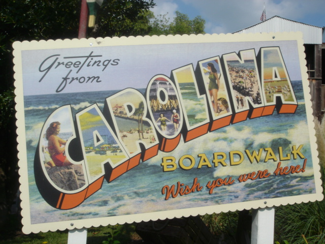 Carolina Boardwalk sign at Carowinds amusement park.